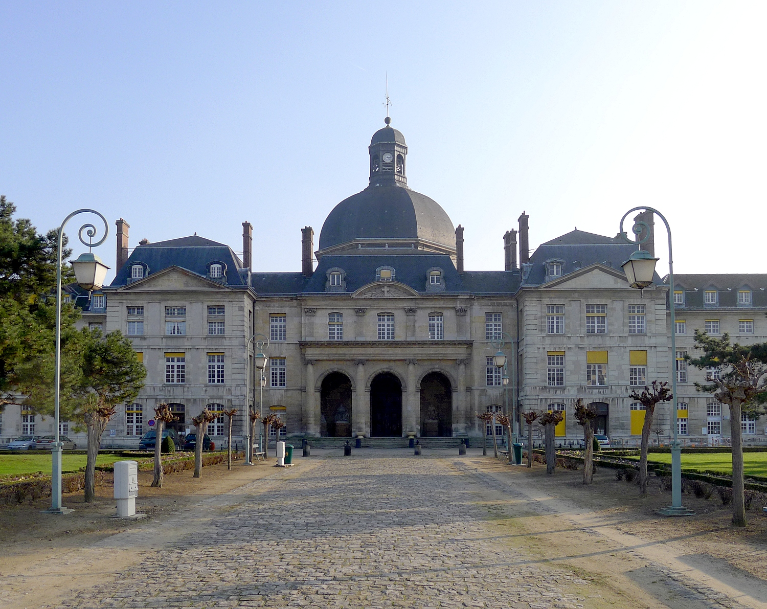 Pitié-Salpêtrière hospital - Paris